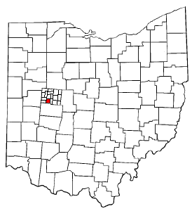 Adapted from Wikipedia's OH county maps. Created by SwissCelt.